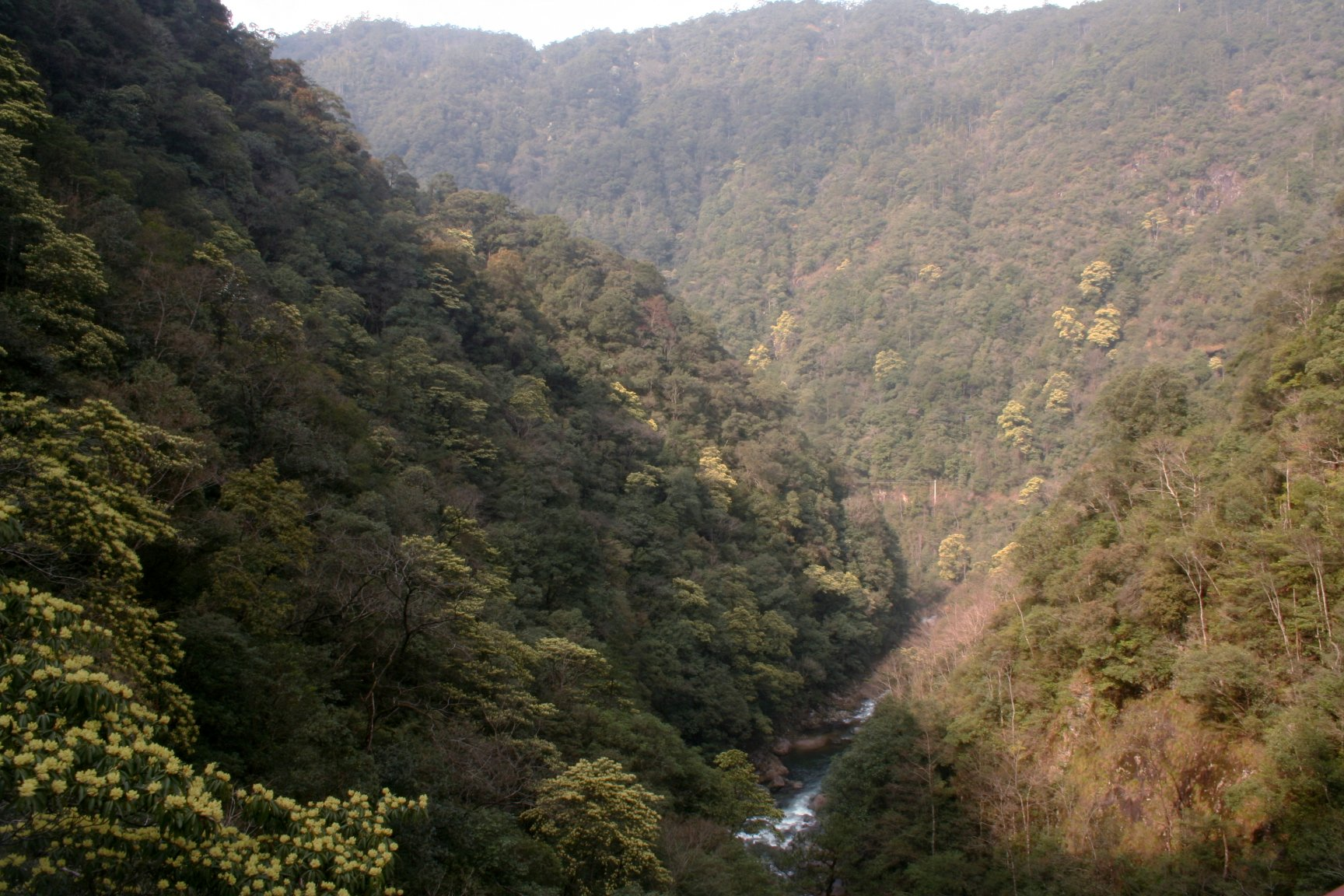 Forest in the nature reserve in the Wuyi Mountains, Fujian Province, China.